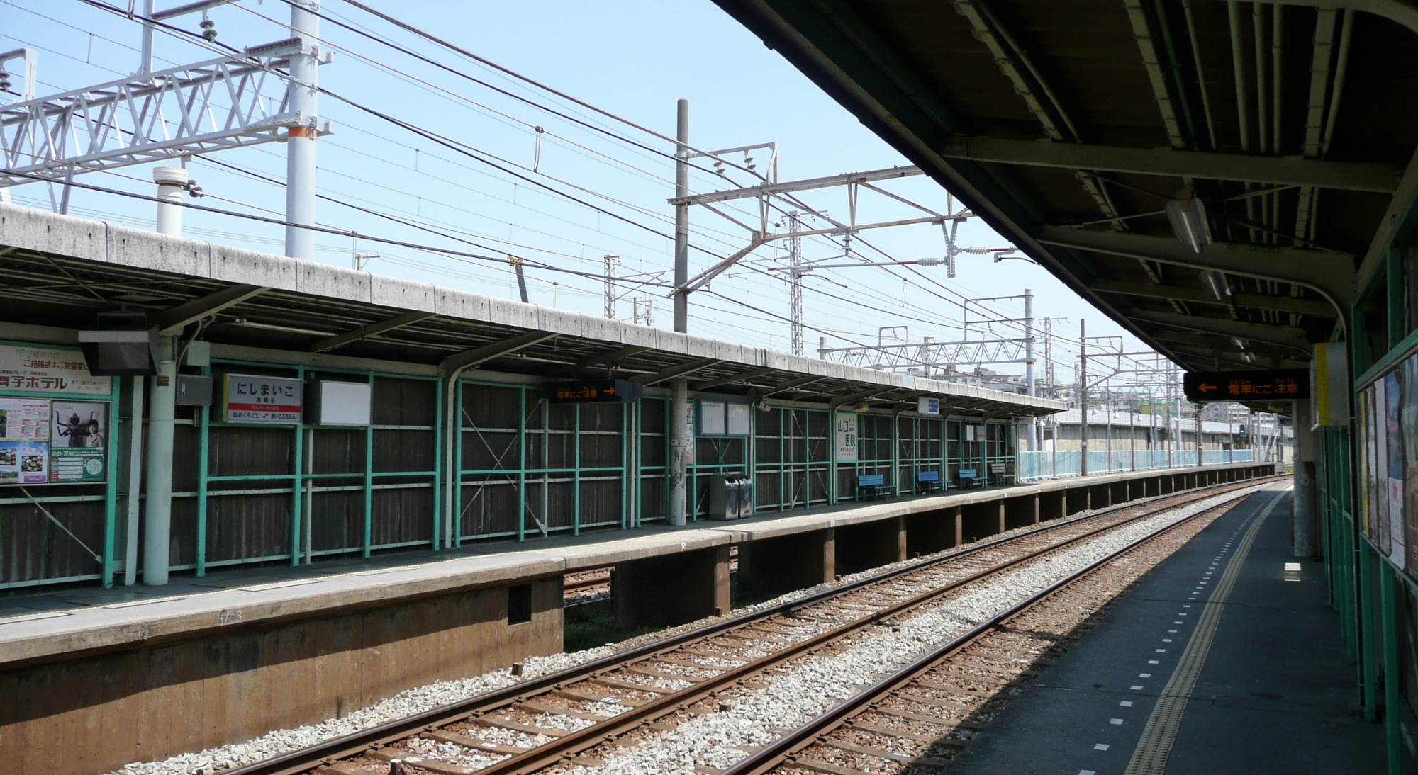 Sanyo Electric Railway,Nishi-Maiko Station platform. / 山陽電気鉄道西舞子駅ホーム